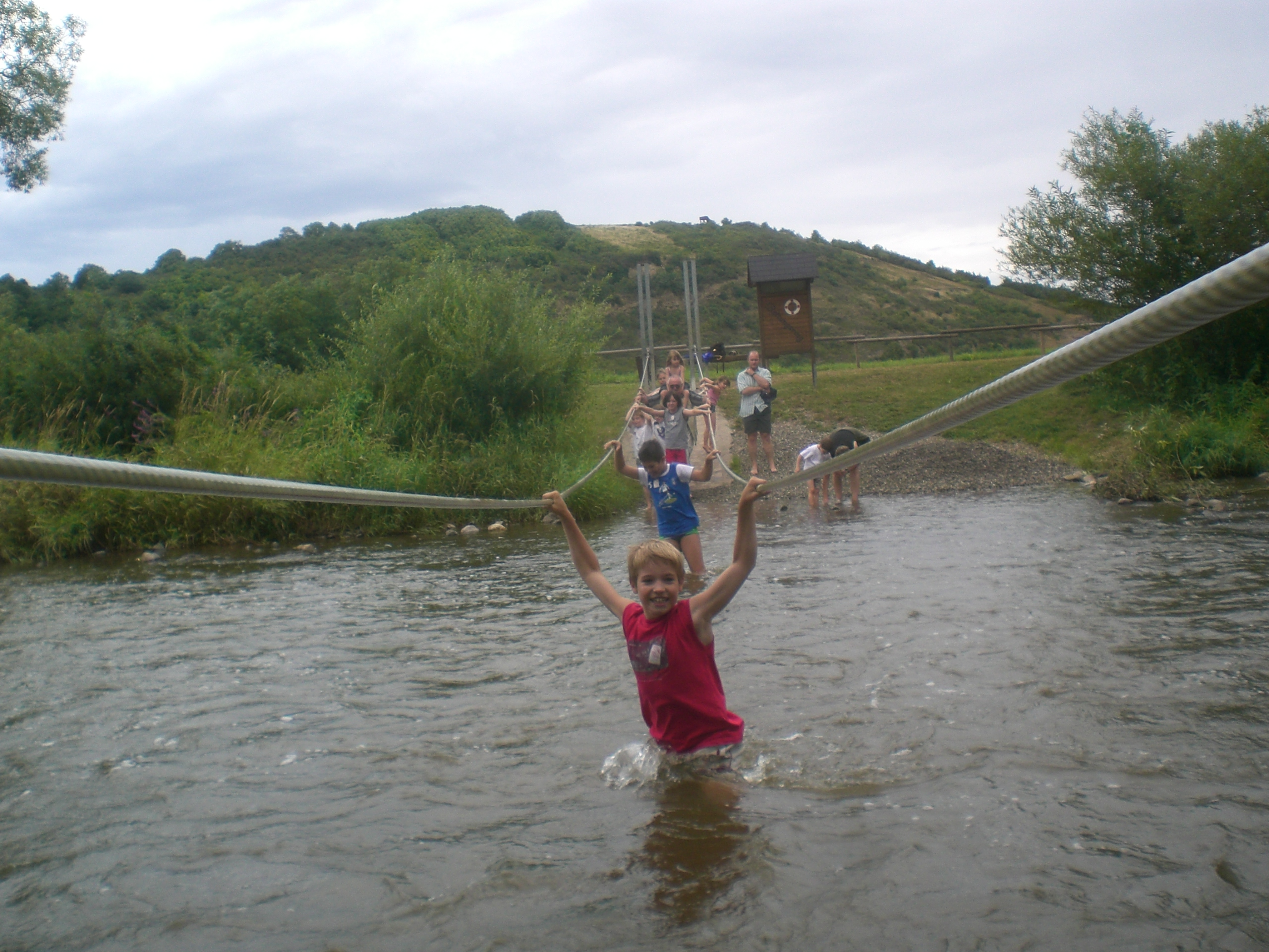 Barefoot park in Bad Sobernheim (Germany)